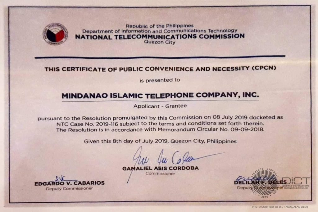 Certificate of Public Convenience and Necessity (CPCN) awarded to the Mislatel Consortium.